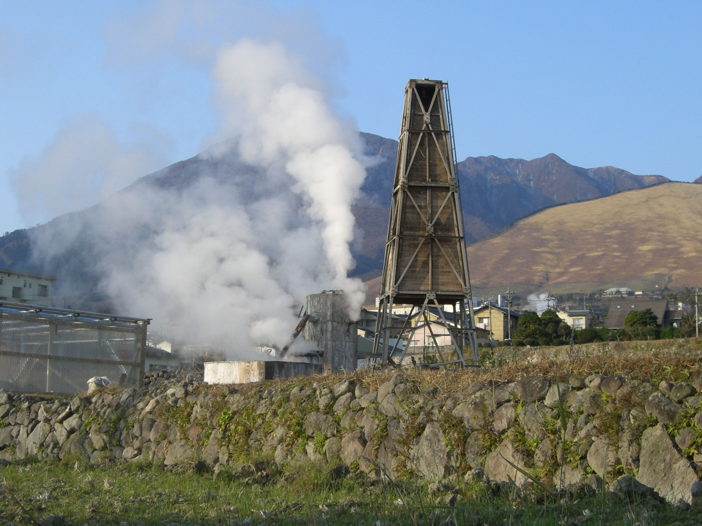 別府温泉の源泉のひとつ; one of the springwells of Beppu Onsen.